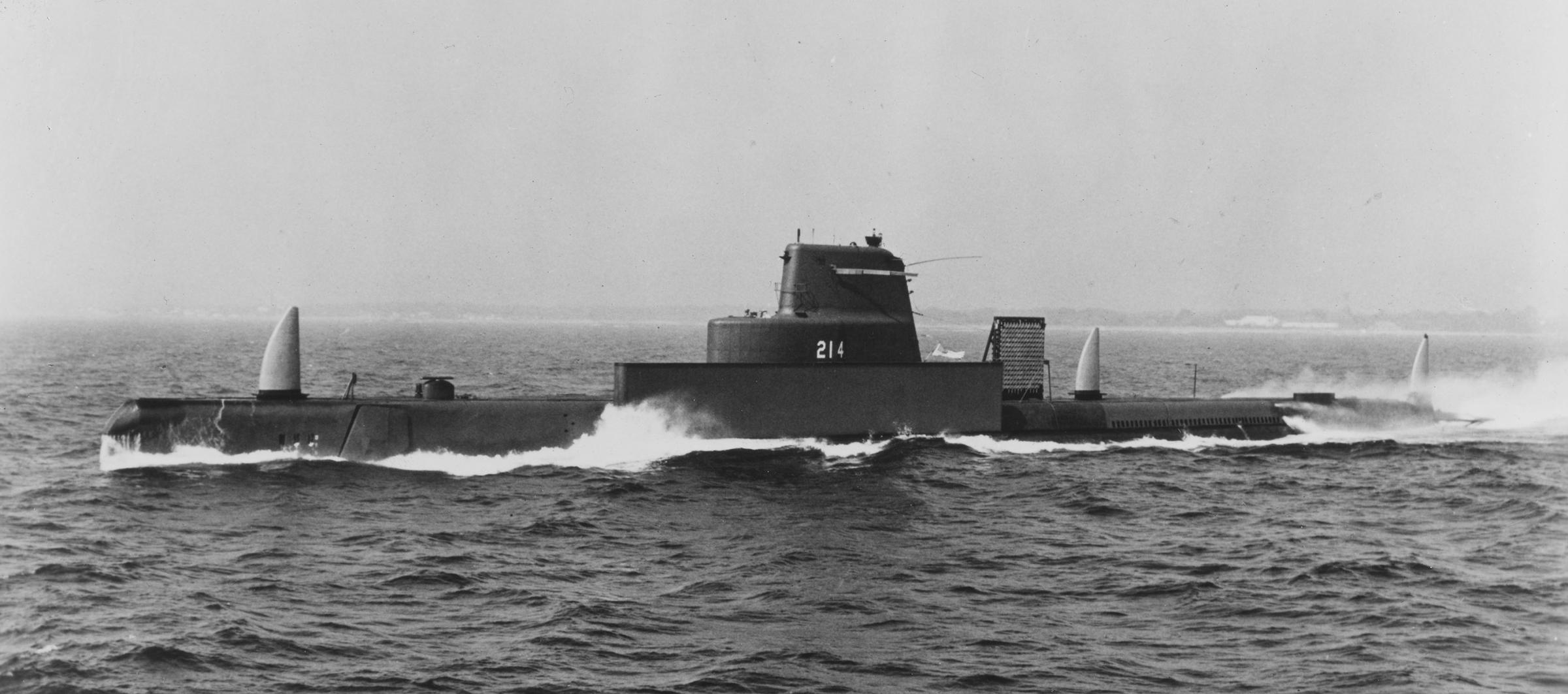 The U.S. Navy submarine USS Grouper (AGSS-214) refitted as a research vessel for the Naval Research and Underwater Sound Laboratories, circa in 1961.